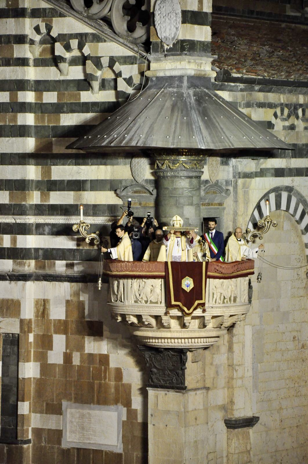 Historical Parade Prato 2018